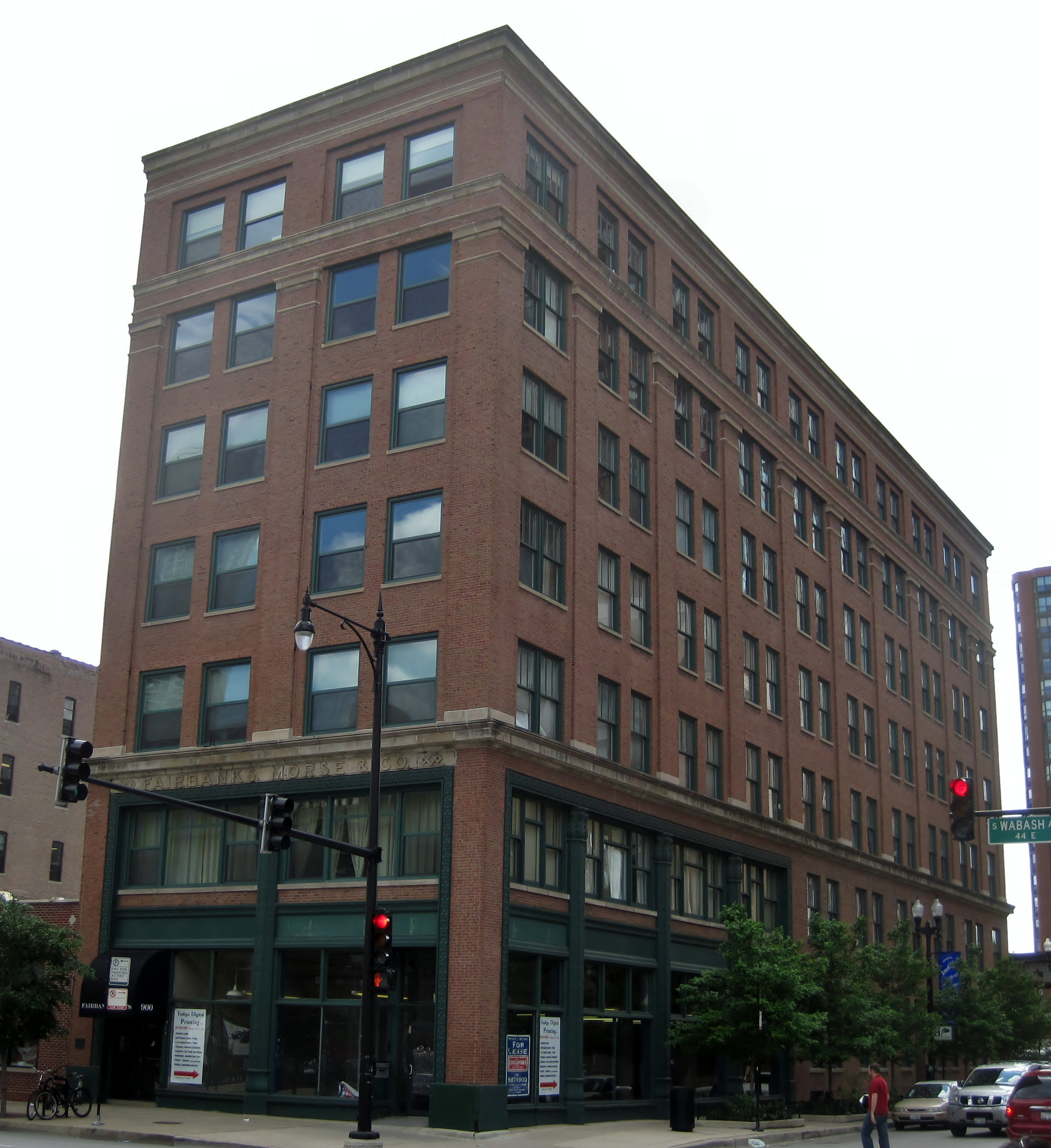 The Fairbanks, Morse & Co. Building in Chicago (1907). It was the national headquarters for the company upon its completion in 1907. Fairbanks, Morse & Co. started as a manufacturers of weighing scales. They became increasingly diversified by the time they moved into their new headquarters, making engines, windmills, typewriters, and industrial goods. Fairbanks-Morse engines were heavily used by the armed forces leading up to World War II.The Goodrich Corporation, who bought Fairbanks-Morse, still produce some items under the name, including scales and engines.